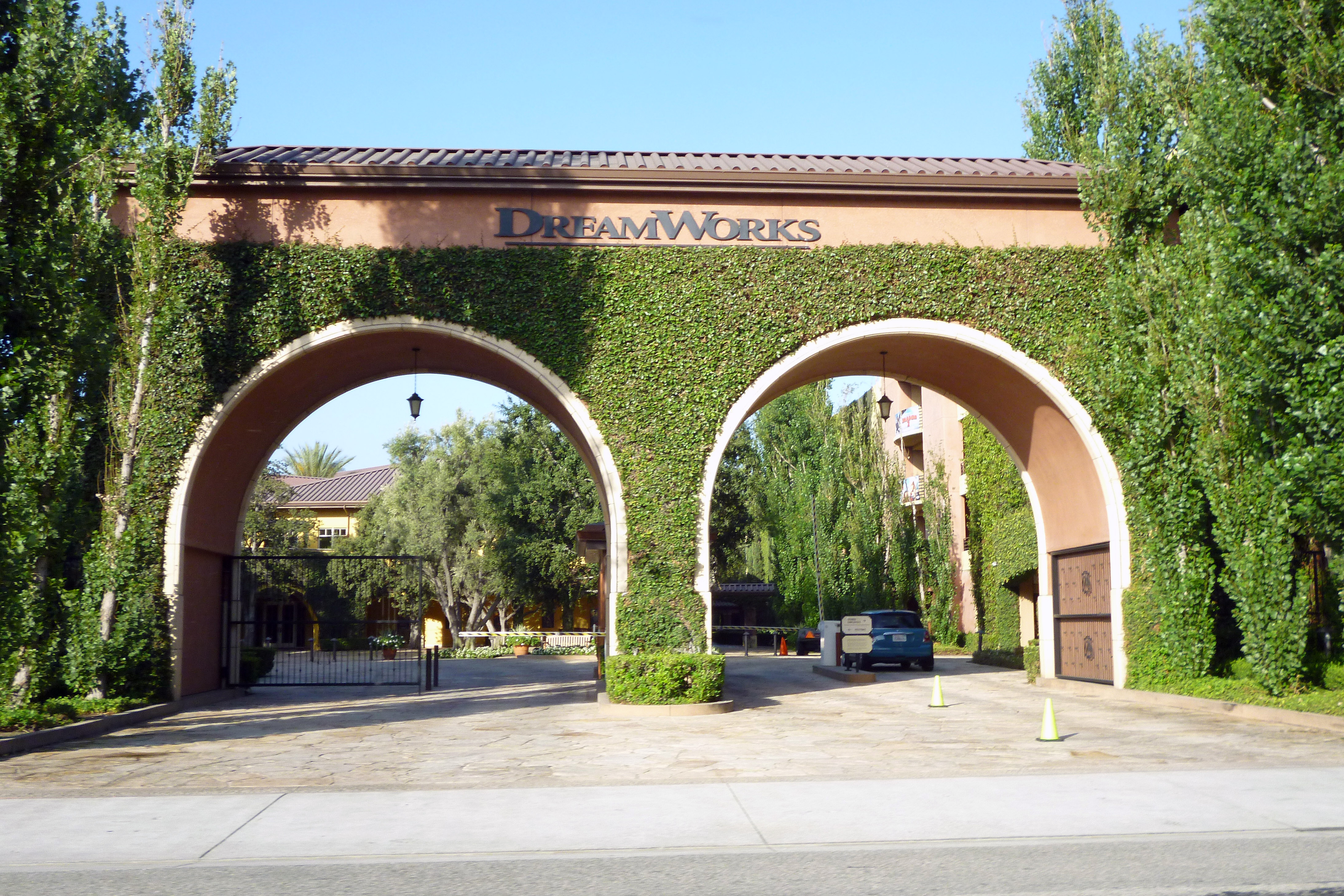 Entrance to the headquarters of Dreamworks Animation in Glendale, California as photographed by user Coolcaesar on June 19, 2014.